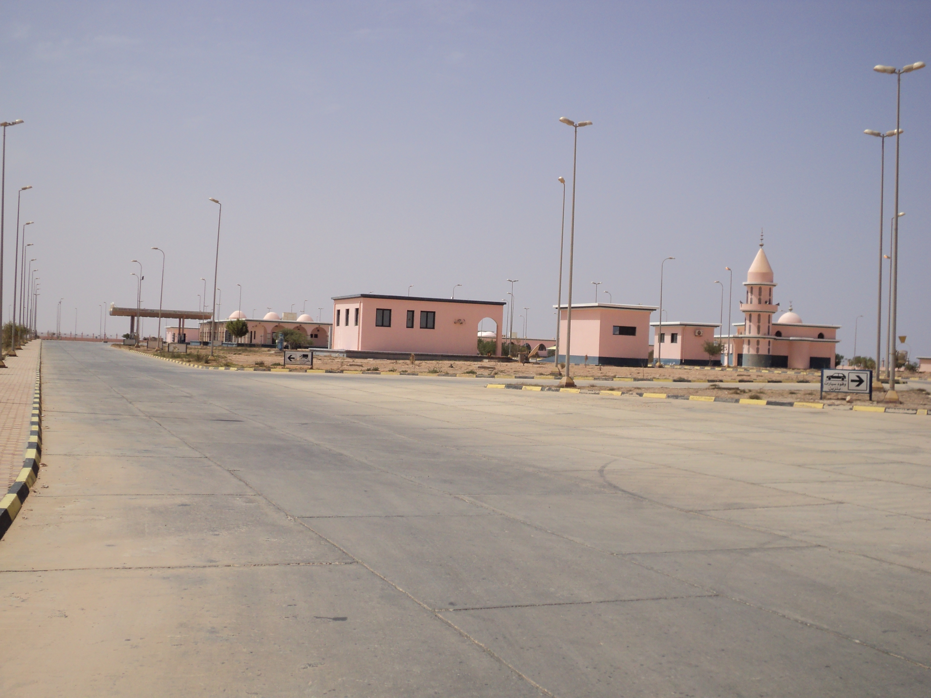 A gas station and mosque near Bardia, Libya.